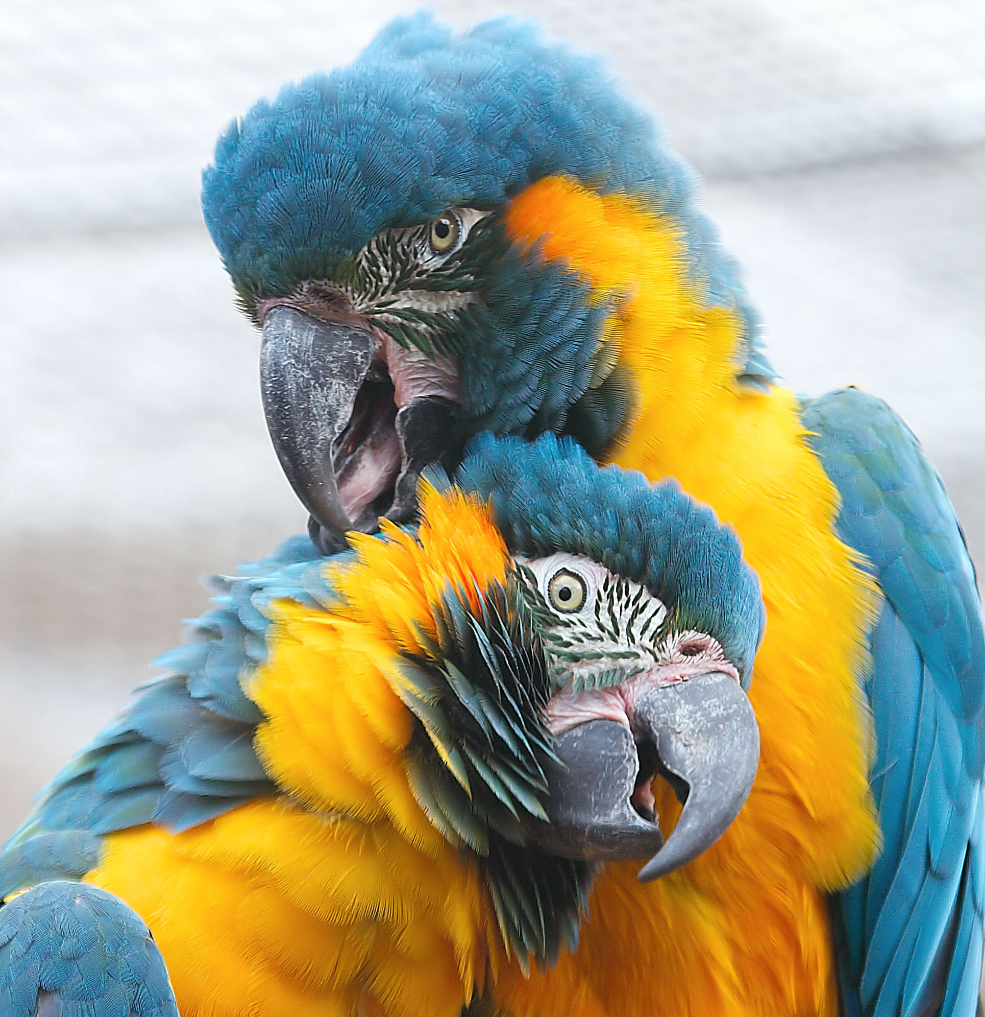 Blue-throated Macaws at Chester Zoo, England. Photograph shows upper bodies of two macaws.